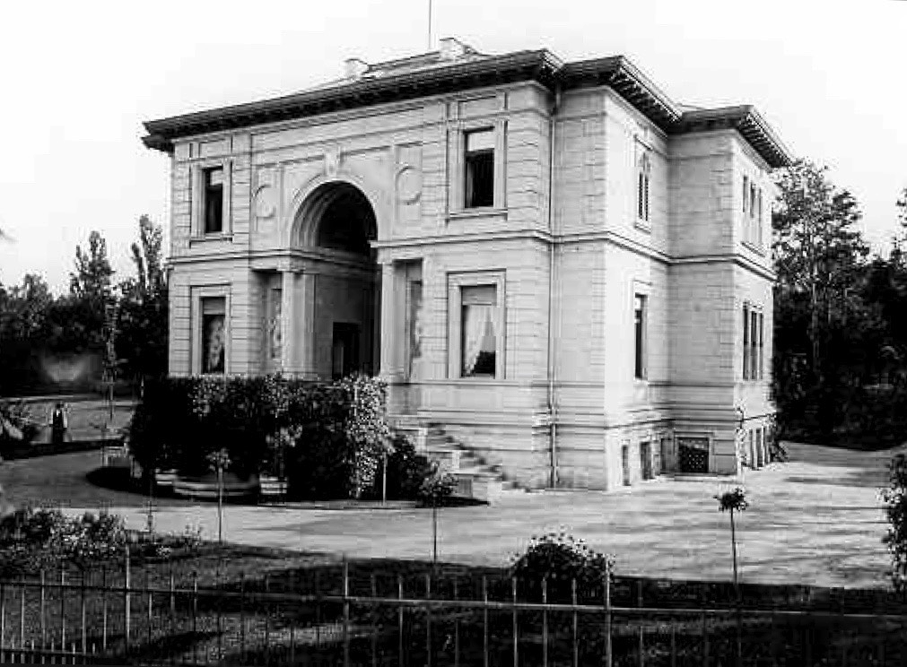 Villa of German banker Barthold Arons (1850–1933), part of Colonie Alsen, located at Grosser Wannsee southwest of Berlin. Here his son Bruno Arons was raised after 1880, who later became an architect and changed his family name to Ahrends. The latter built between 1921 to 1925 a cottage for his own family in direct neighbourship.